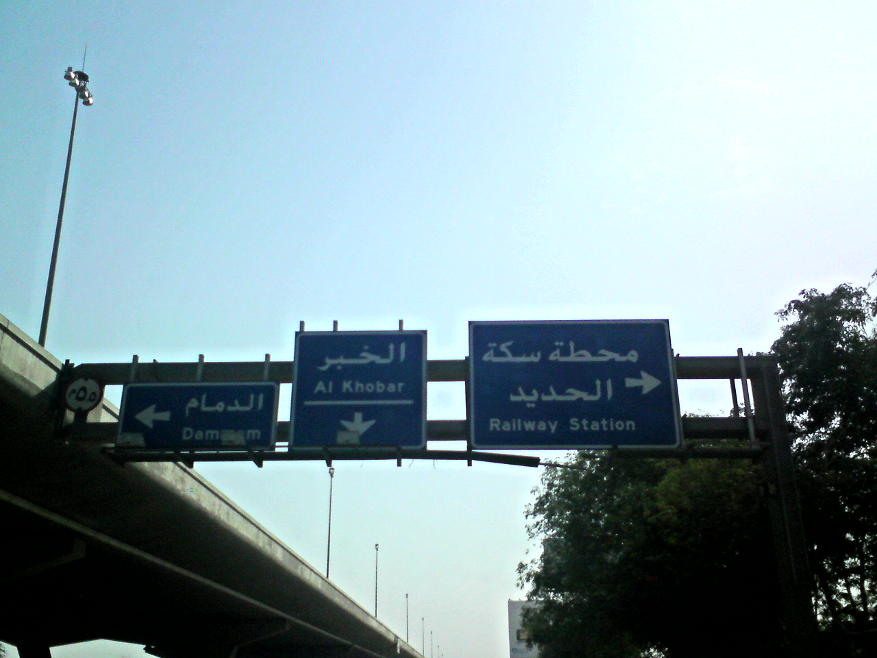 Signboard on the road from Dammam to Khobar